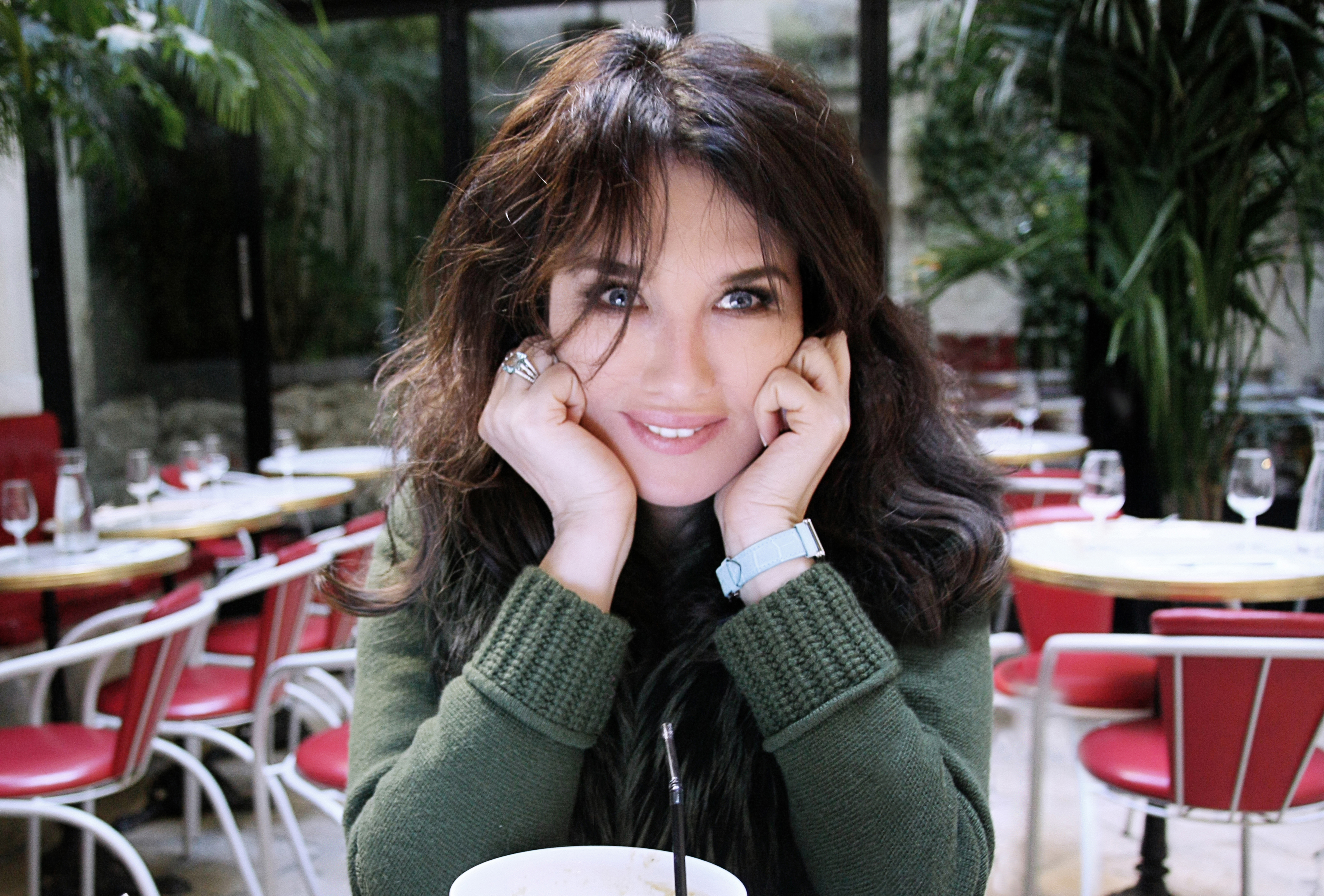 Isabelle Adjani at the hôtel Amour, October 21st 2012